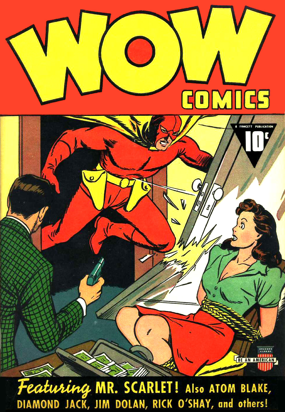 Mr. Scarlet to the rescue on the cover of Wow Comics number one (Winter, 1940). The crimson-clad detective held the top spot until Mary Marvel arrived in 1942.